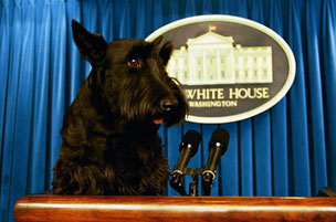 Barney, with White House Press Secretary traveling with the President, Barney holds his first Press Briefing.